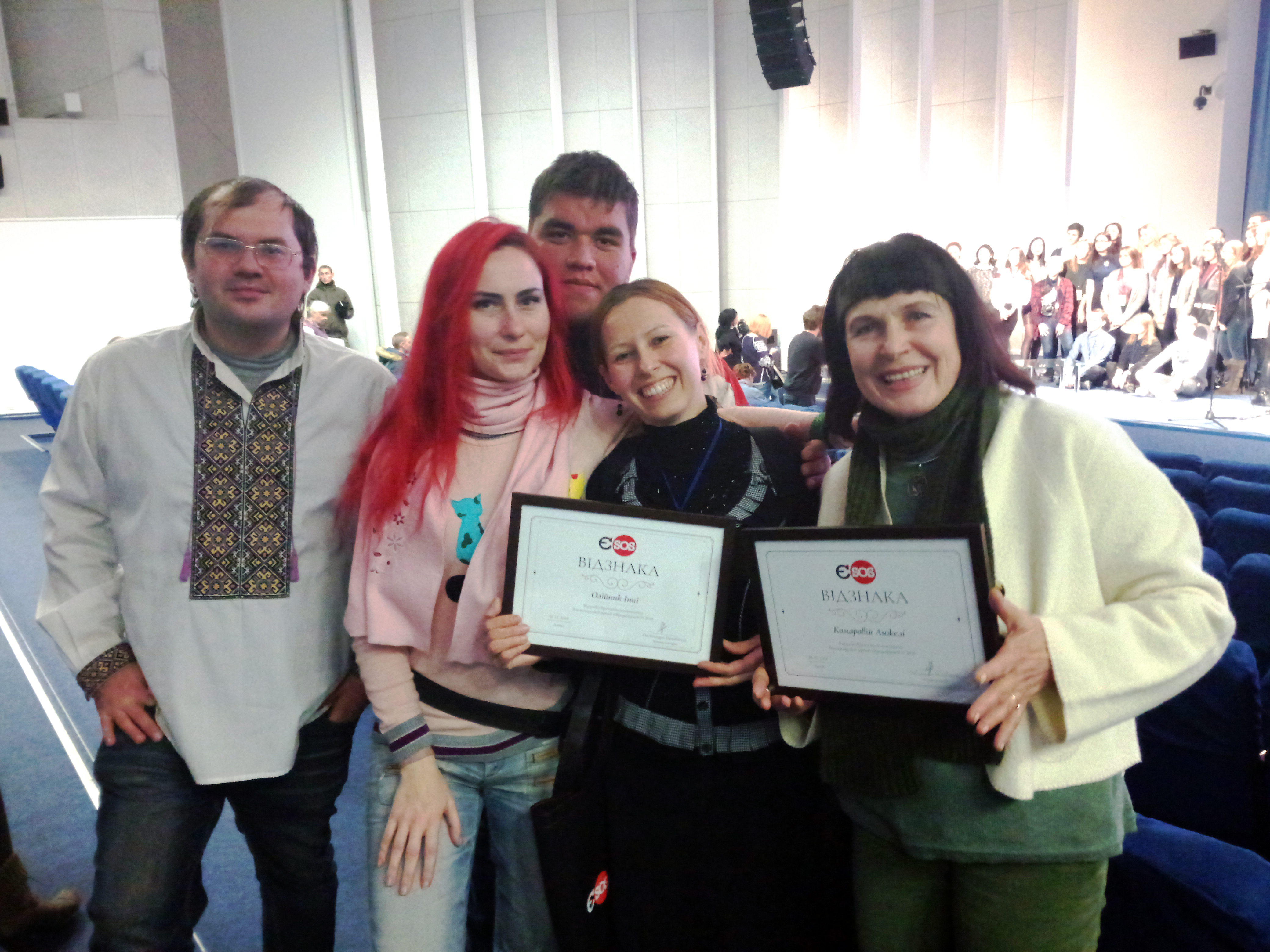 Euromaidan SOS 2018 at Ukrainian House.